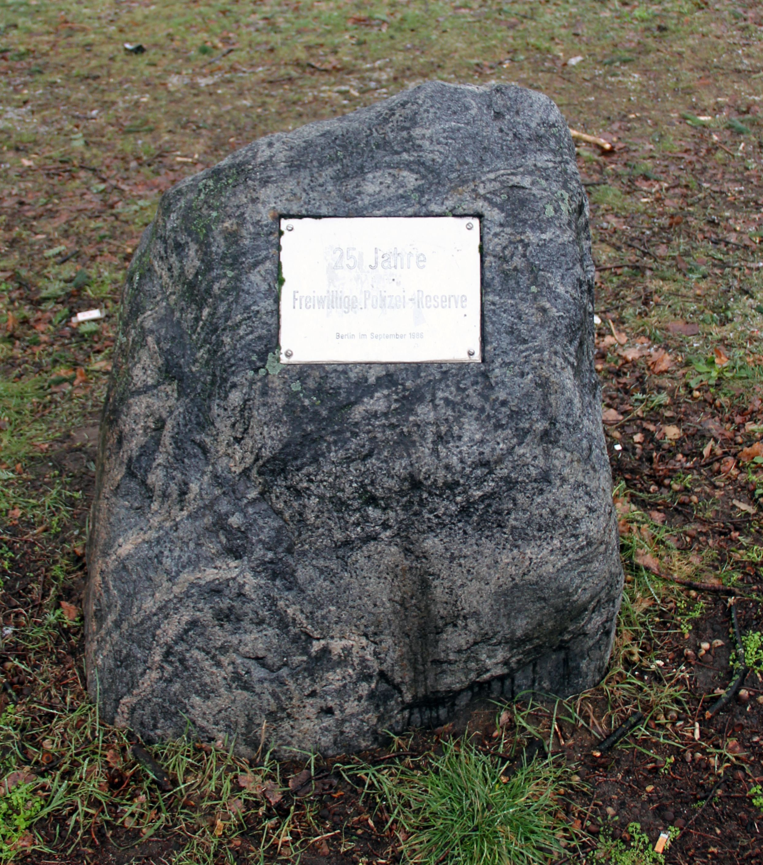 Memorial stone, Freiwillige Polizei-Reserve, Waidmannsluster Damm 1, Berlin-Tegel, Germany